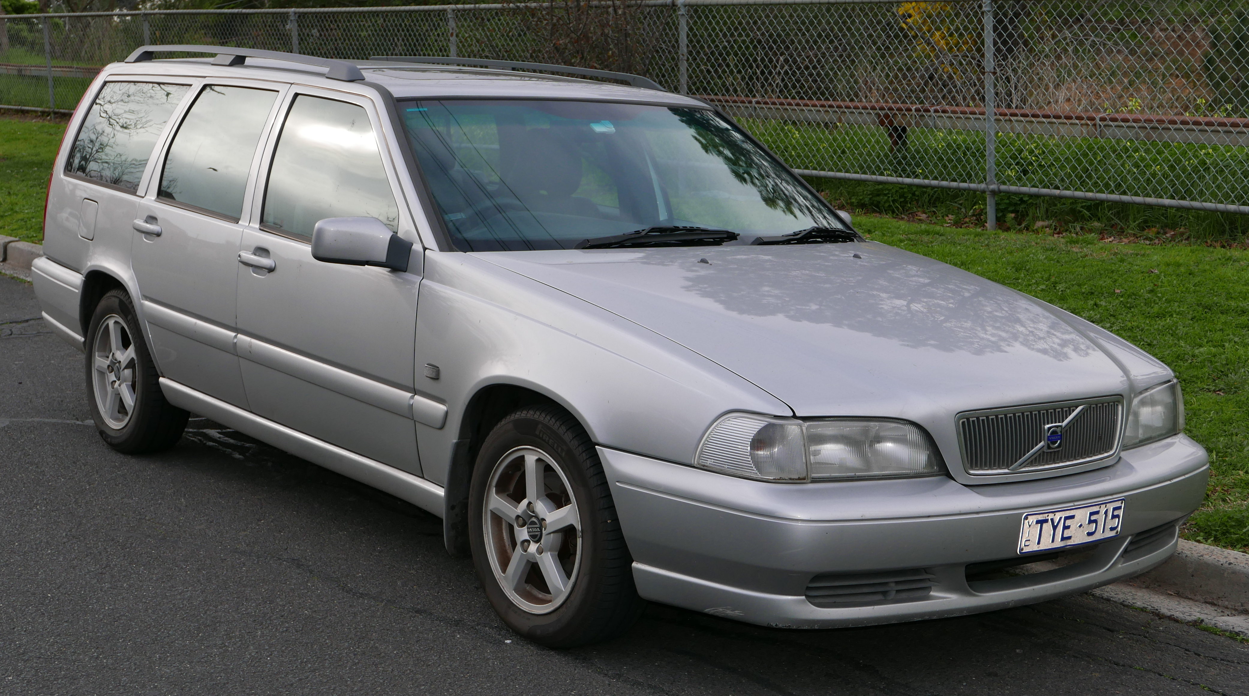 1999 Volvo V70 (MY00) 2.4 20V CD station wagon. Photographed in Ivanhoe, Victoria, Australia. Vehicle registration enquiry results Jurisdiction Victoria Registration TYE515 Chassis code YV1LW61F9Y2634830 Engine code B5244S1749839 Compliance date 1999-05 Year of manufacture 2000 (not a typo)